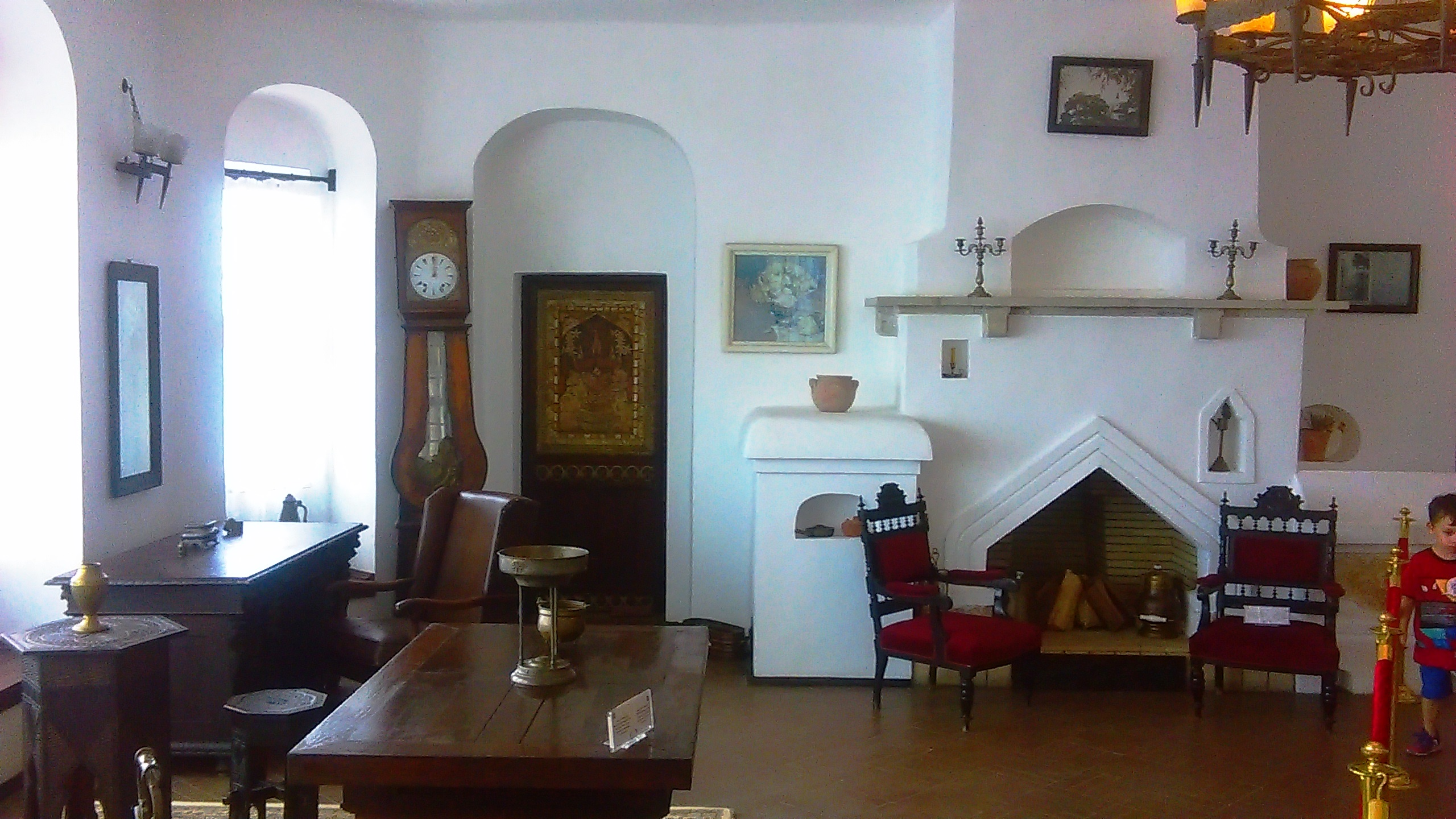 Interior of Architectural-Park Complex “The Palace” in Balchik